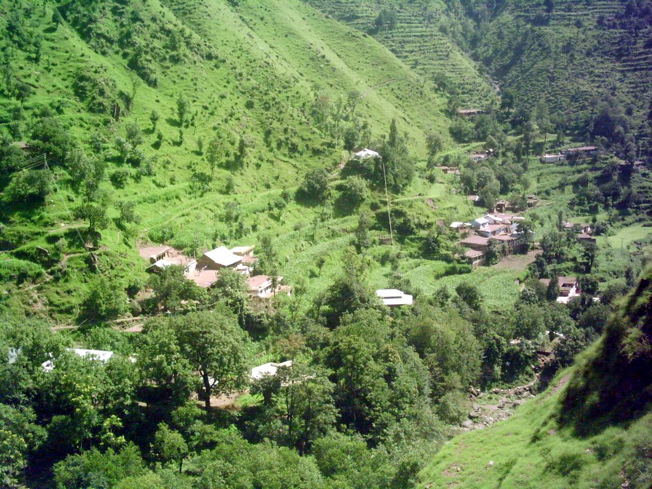 Kanshian Lower from Bajli